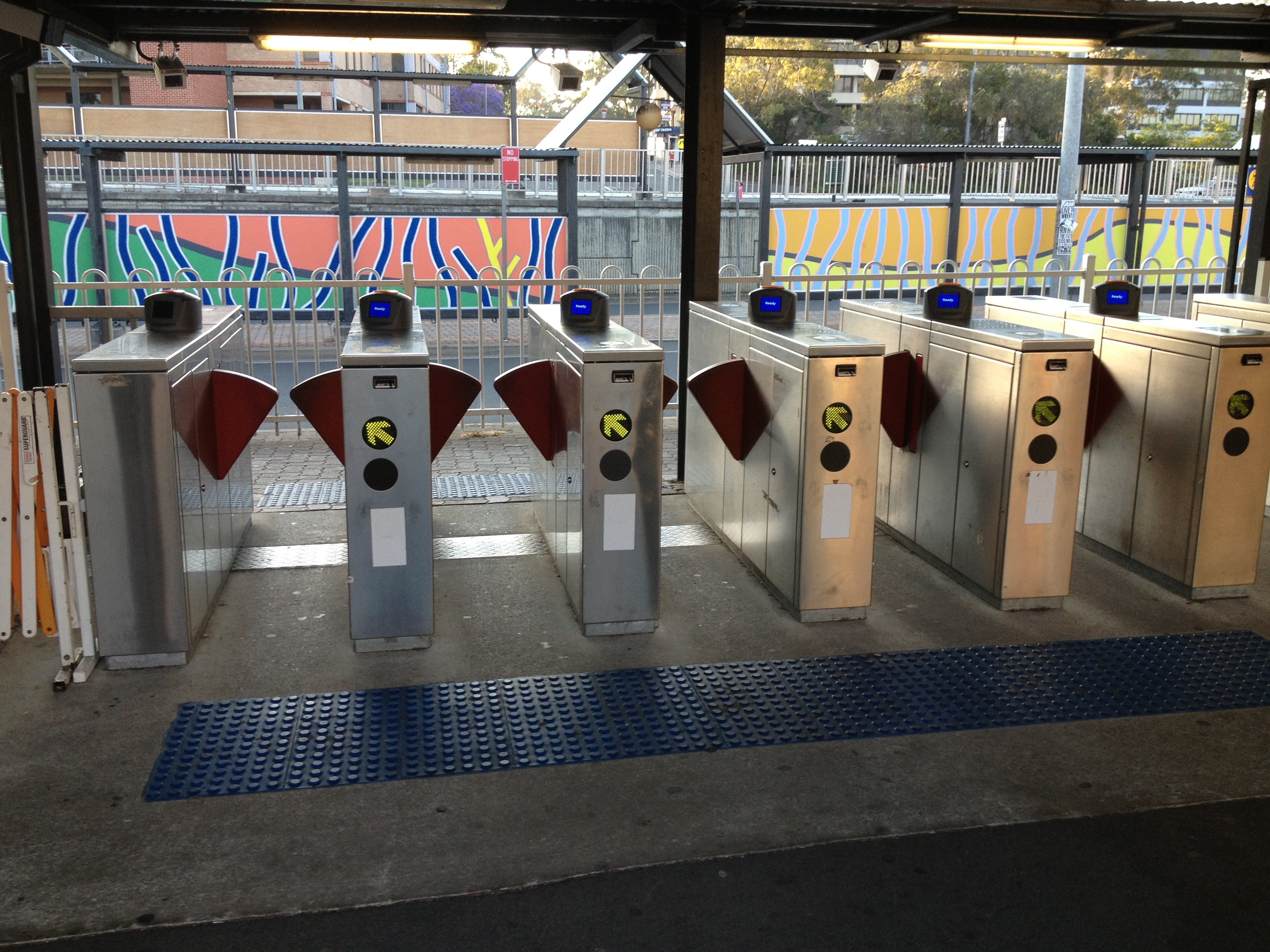 Ticket barriers on platform 3 at Campbelltown Station.